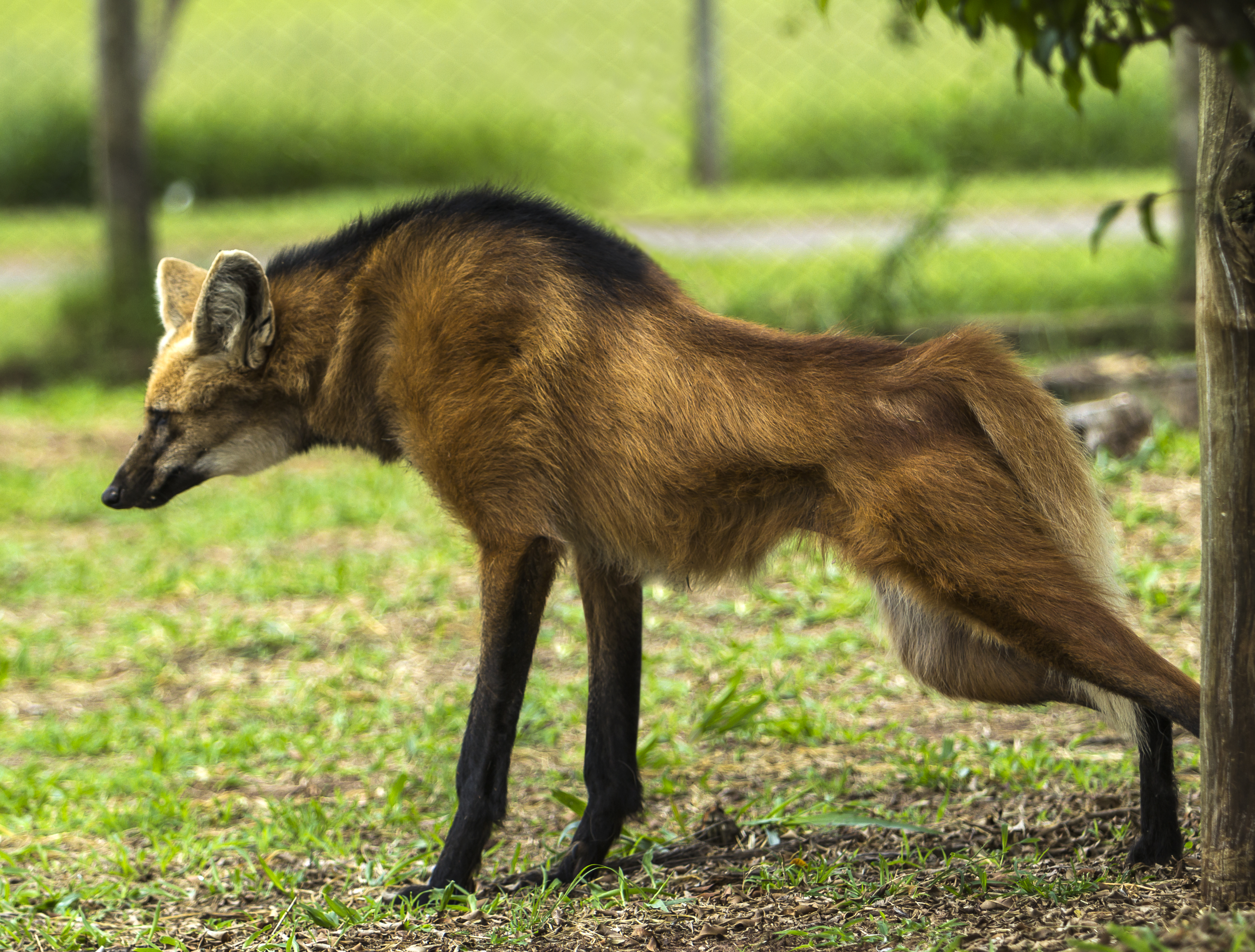 The maned wolf (Chrysocyon brachyurus) is the largest canid of South America, resembling a large fox with reddish fur.